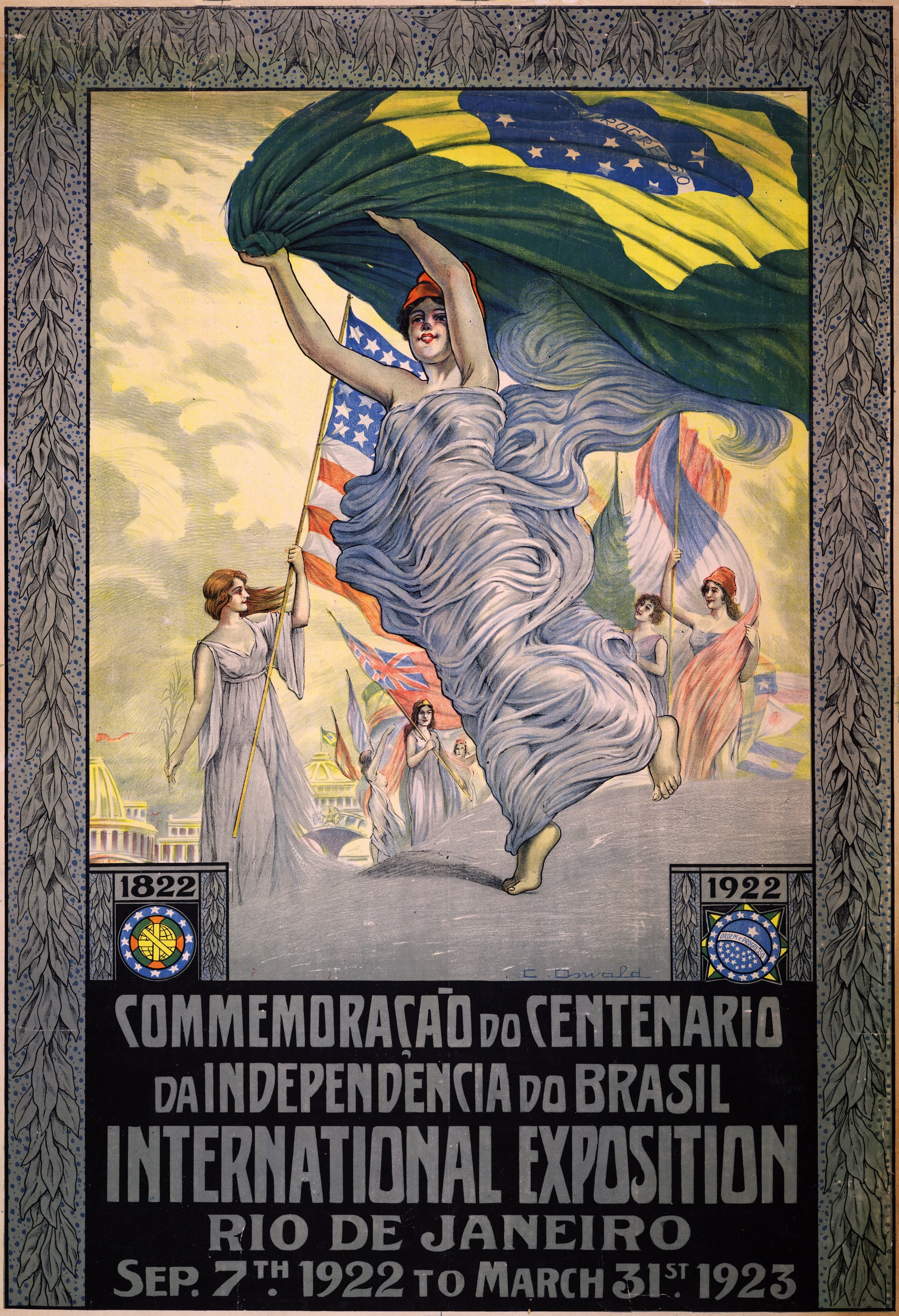 Poster for the "Exposição do Centenário da Independência do Brasil" (Independence Centenary International Exposition) held in Rio de Janeiro.